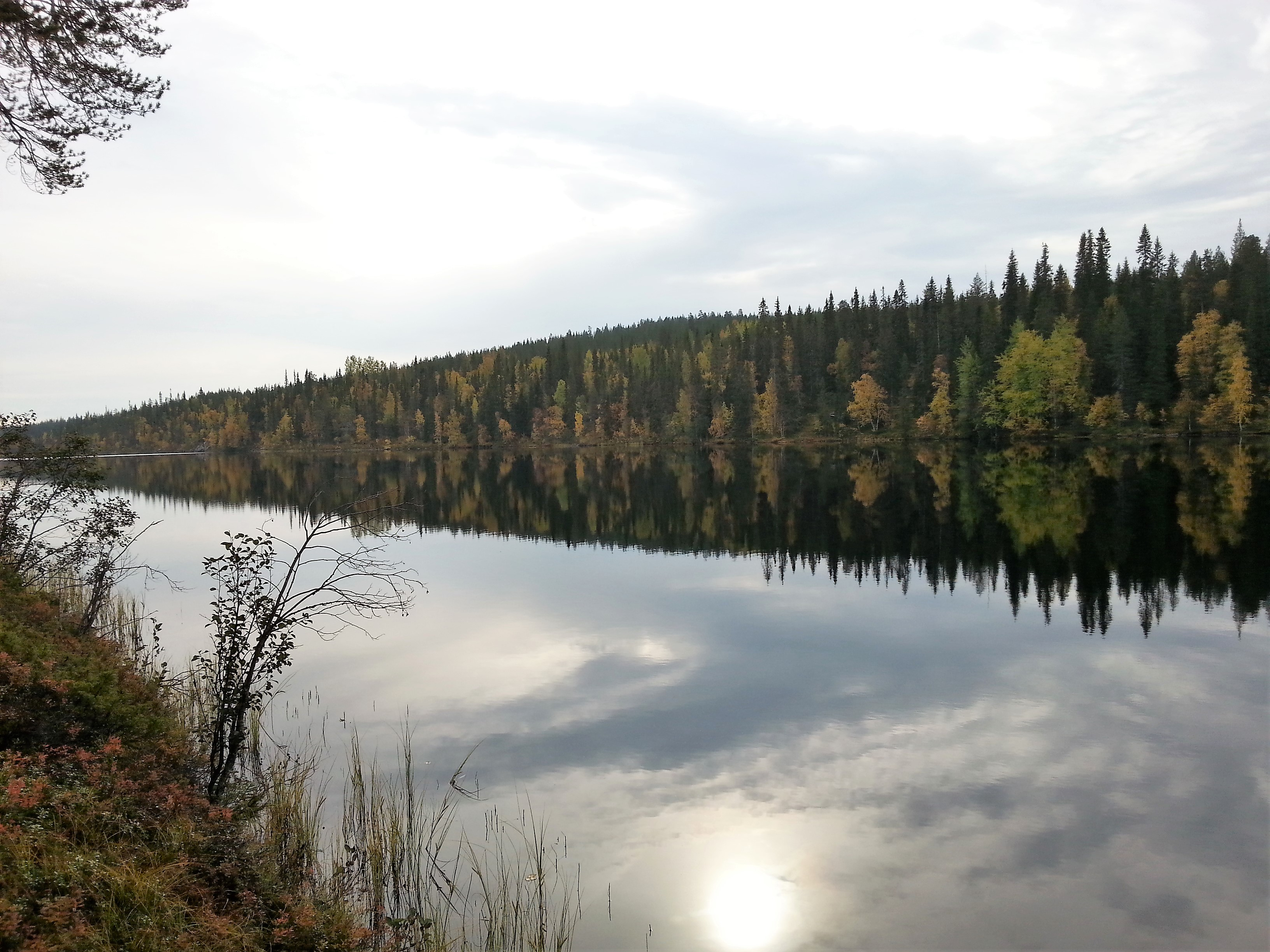 Pärijärvi with Autumn colours.